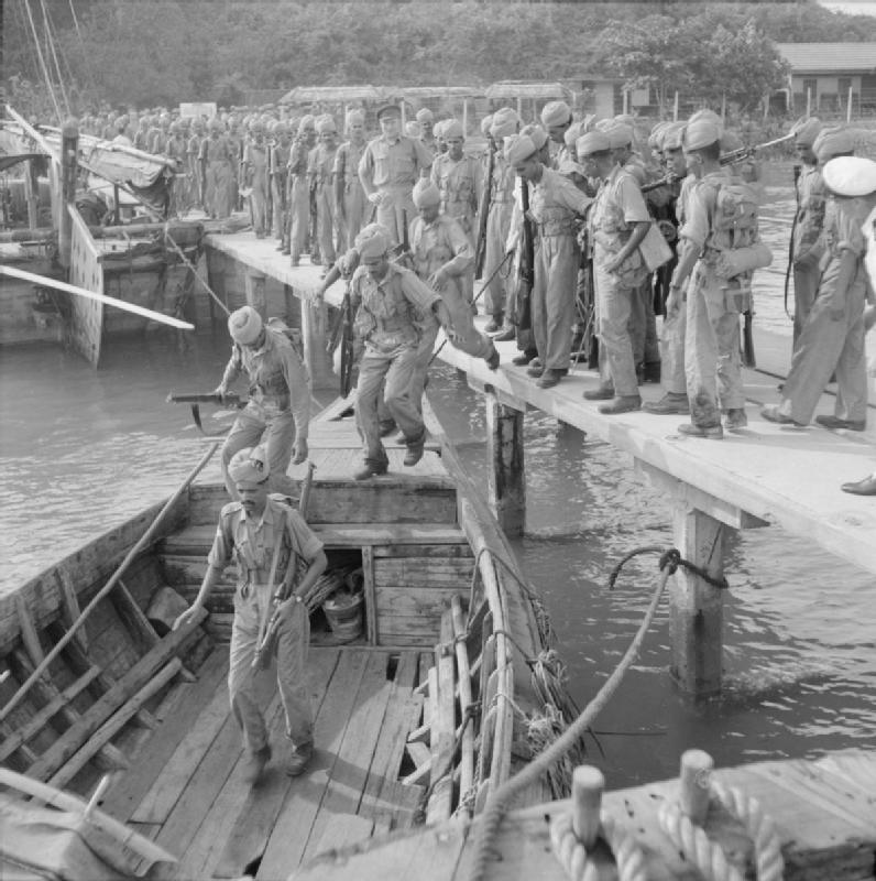 The British Army in Malaya 1941 Indian troops embark onto boats during an invasion exercise in southern Johore, 13 November 1941.